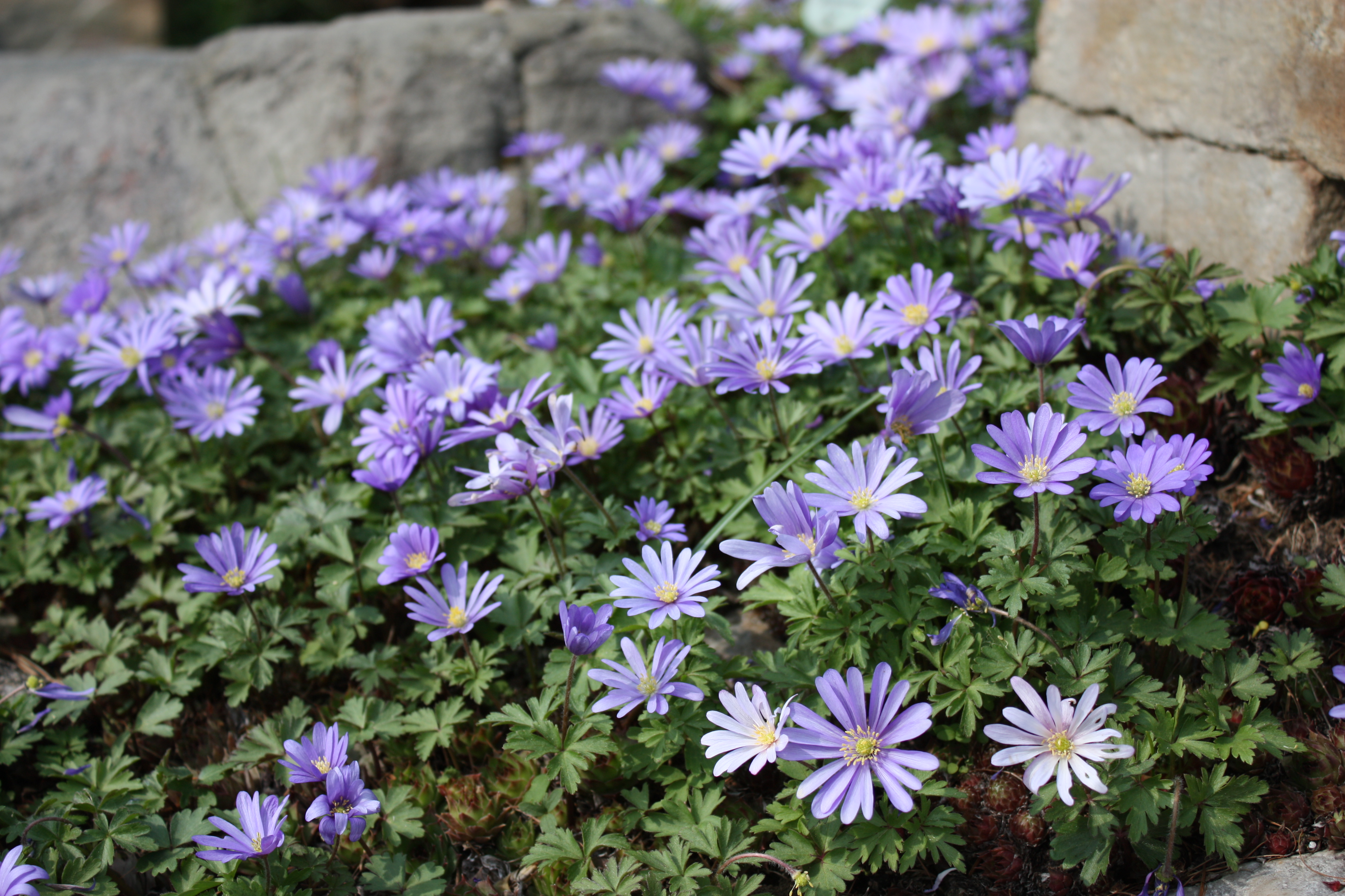 Anemone blanda, Botanical Garden of the Goethe University Frankfurt